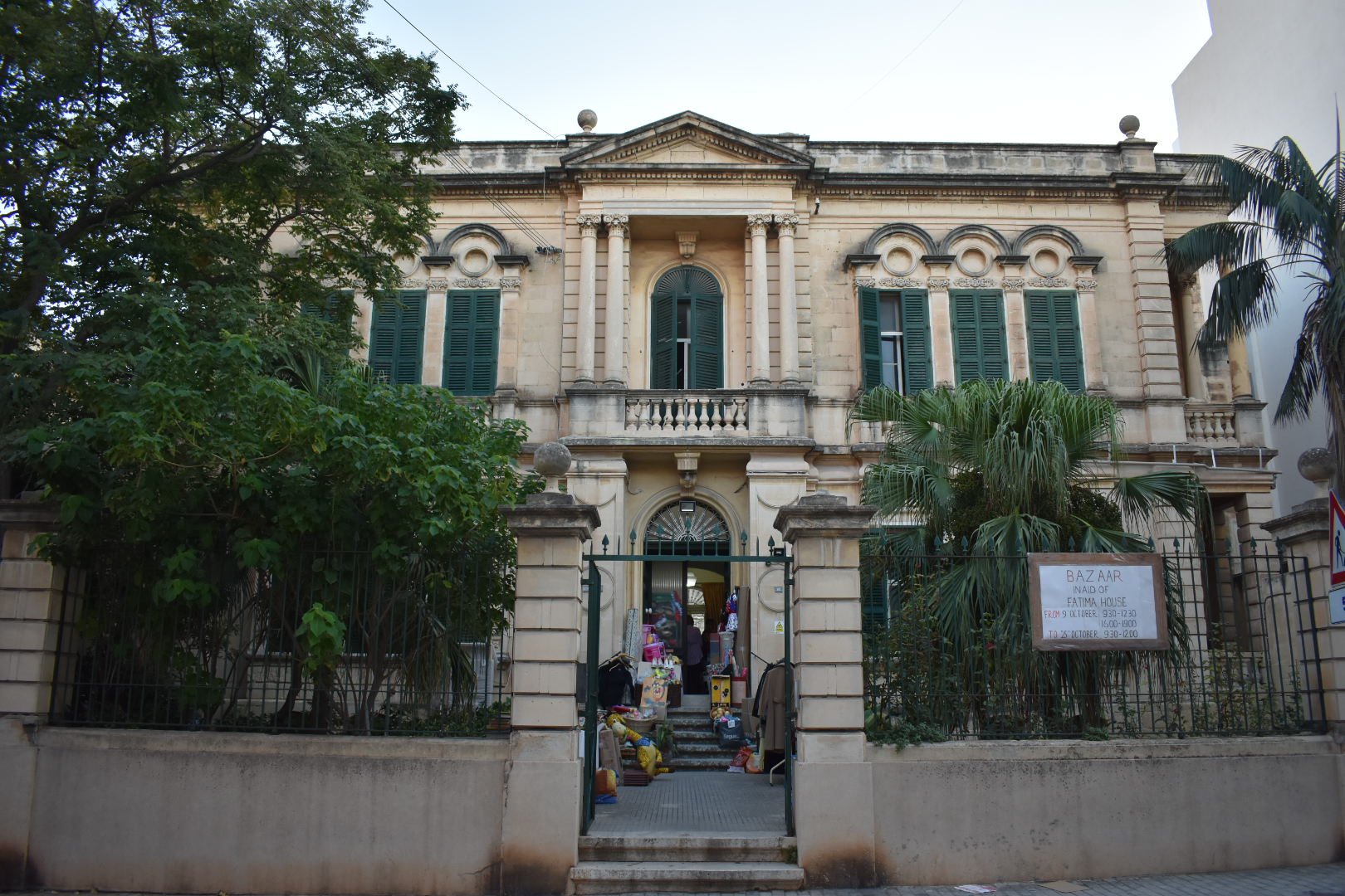 Villa Betharram